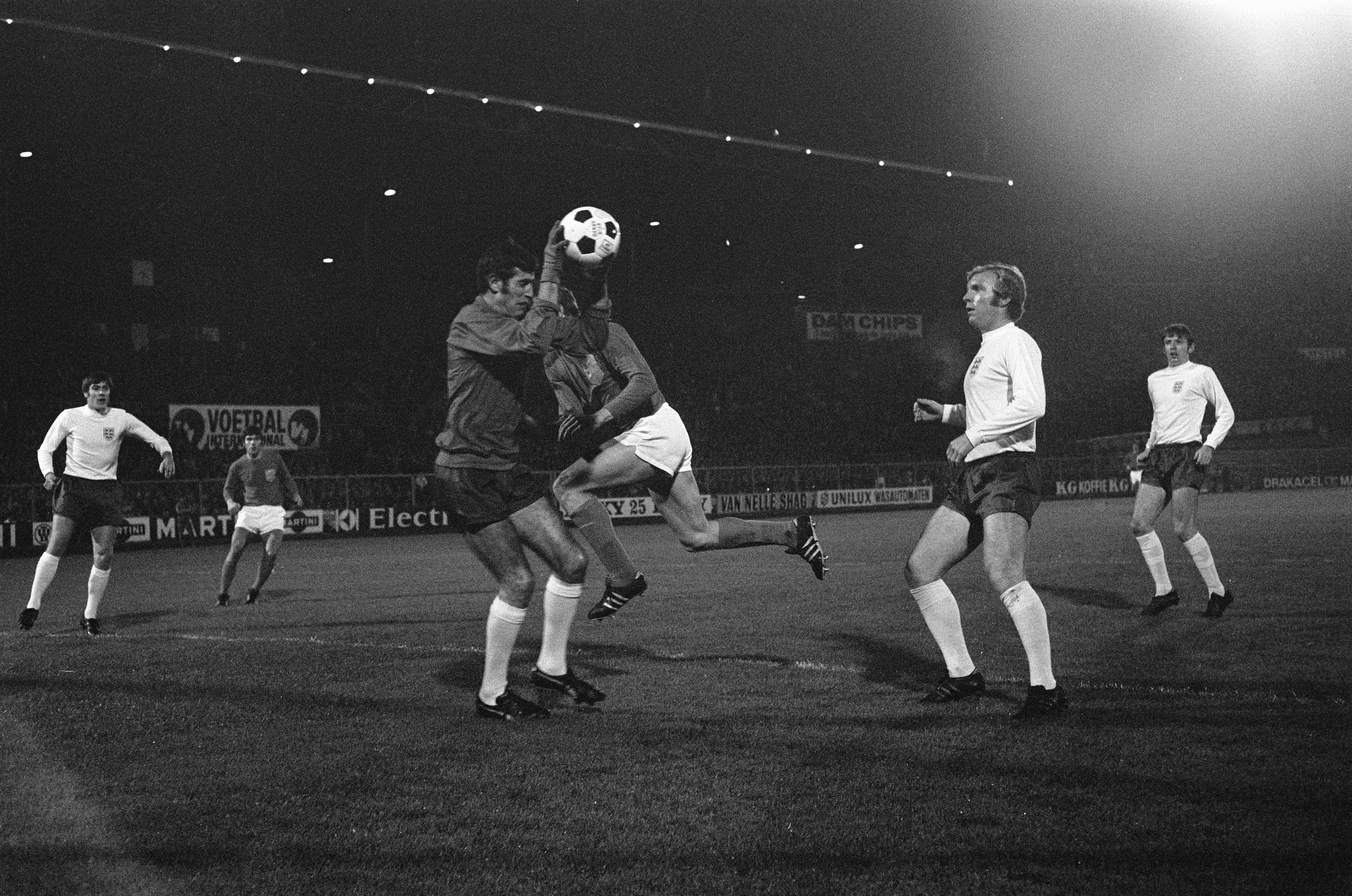 Peter Bonetti saves a football with opponents and teammates look on in a football match aganist the Netherlands on 5 November 1969